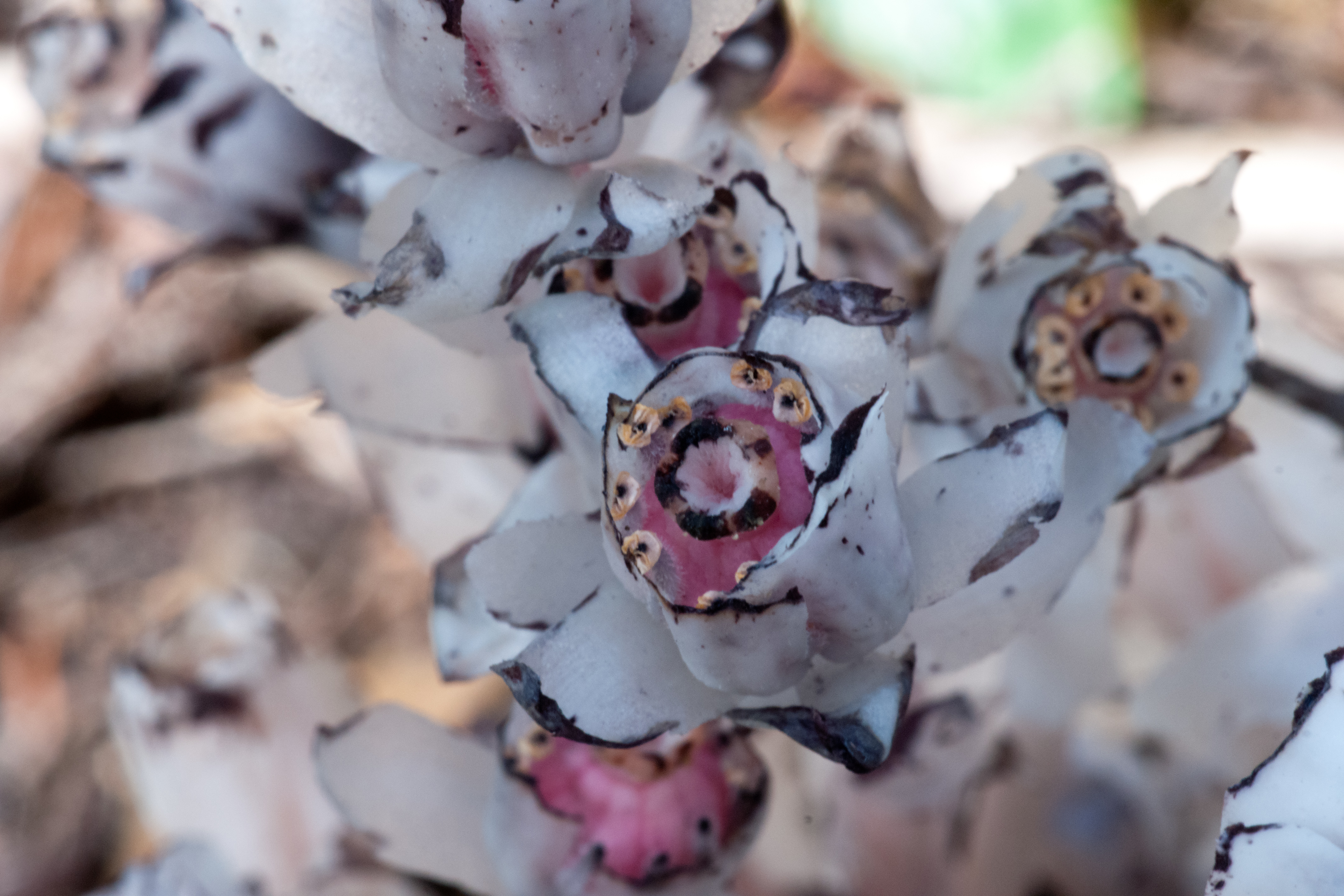 Indian Pipe - Flowering part detail